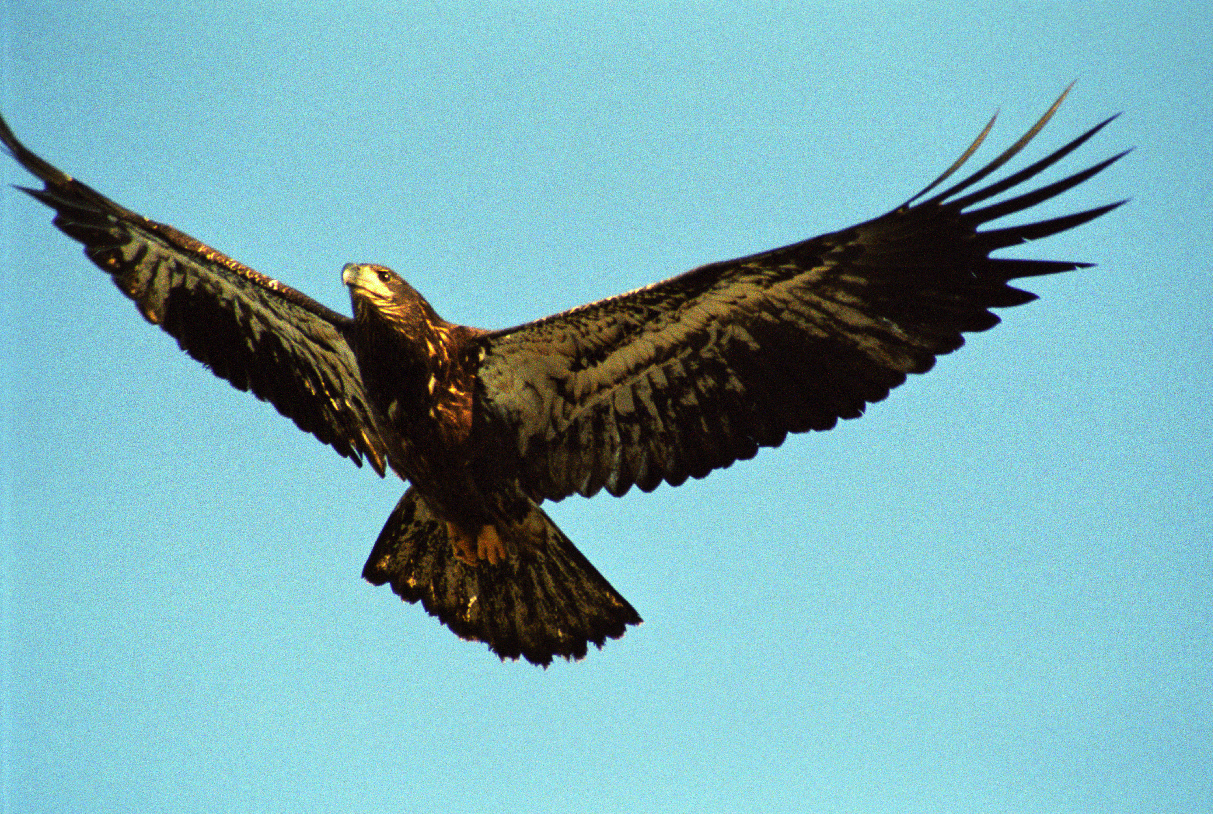 Wild bald eagle, just fledging from nest.